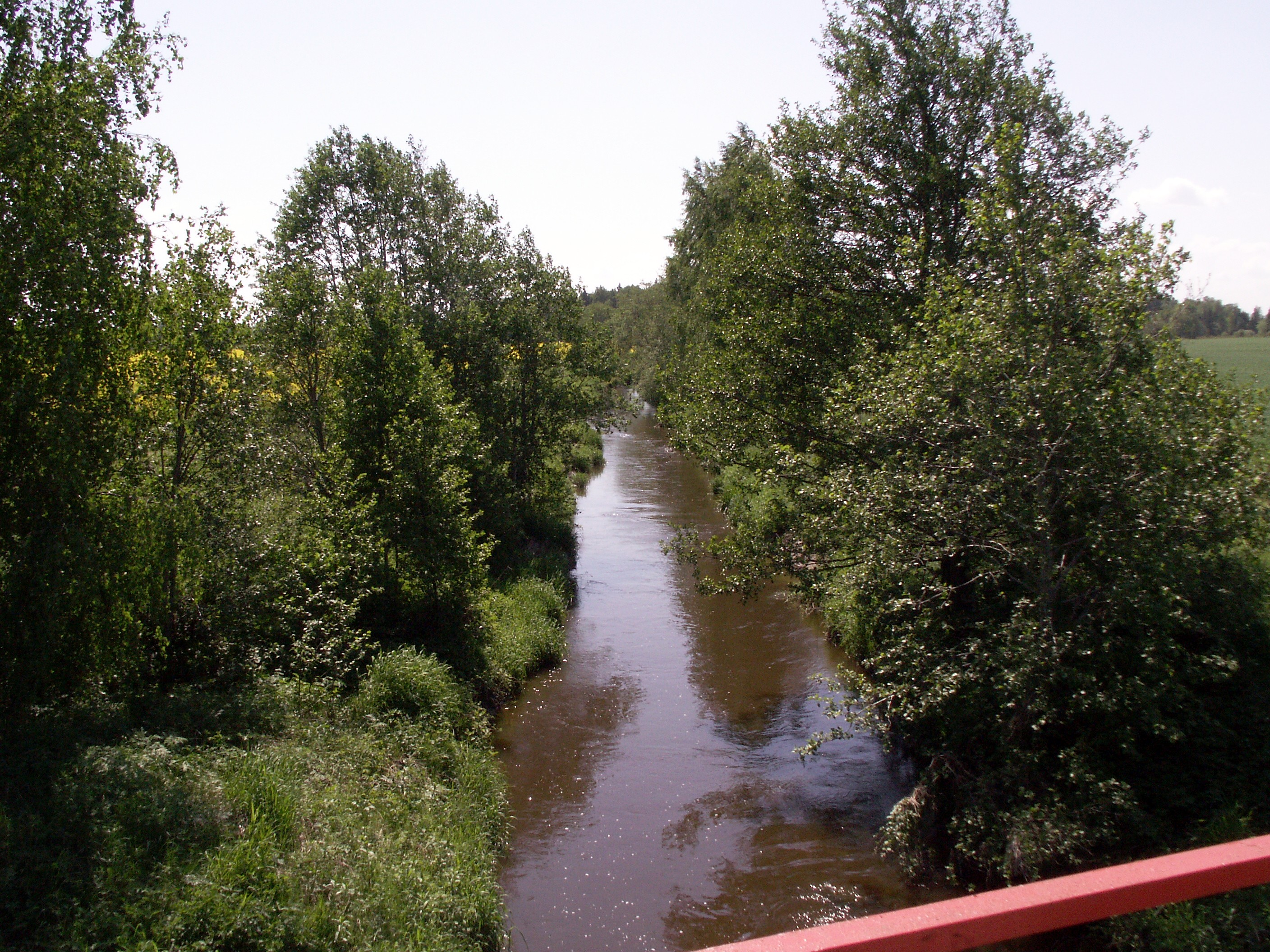 Kulpė near Barysiai, Joniškis district, Lithuania